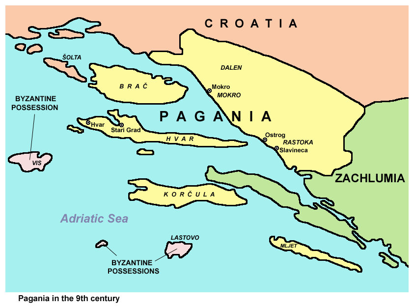 Pagania/Neretva in the 9th century.